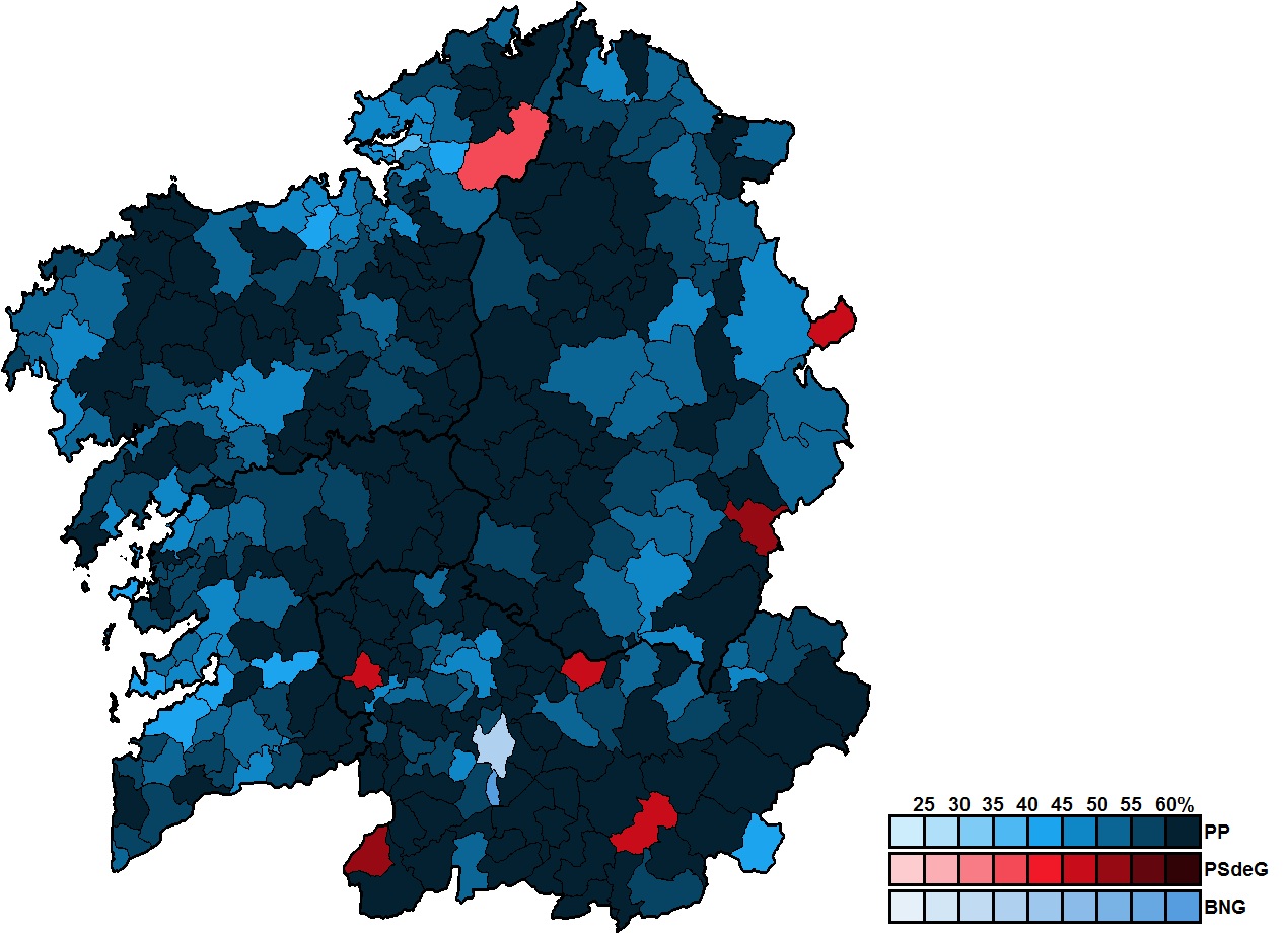 Most-voted party in Galicia municipalities, showing vote share obtained, in the Spanish general election, 2011.